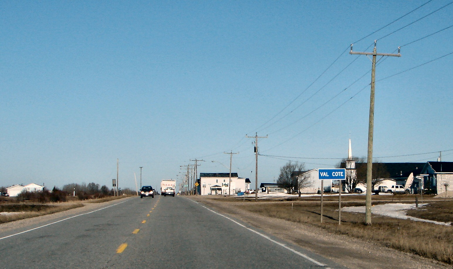 Highway 11 at Val Cote, Ontario, Canada